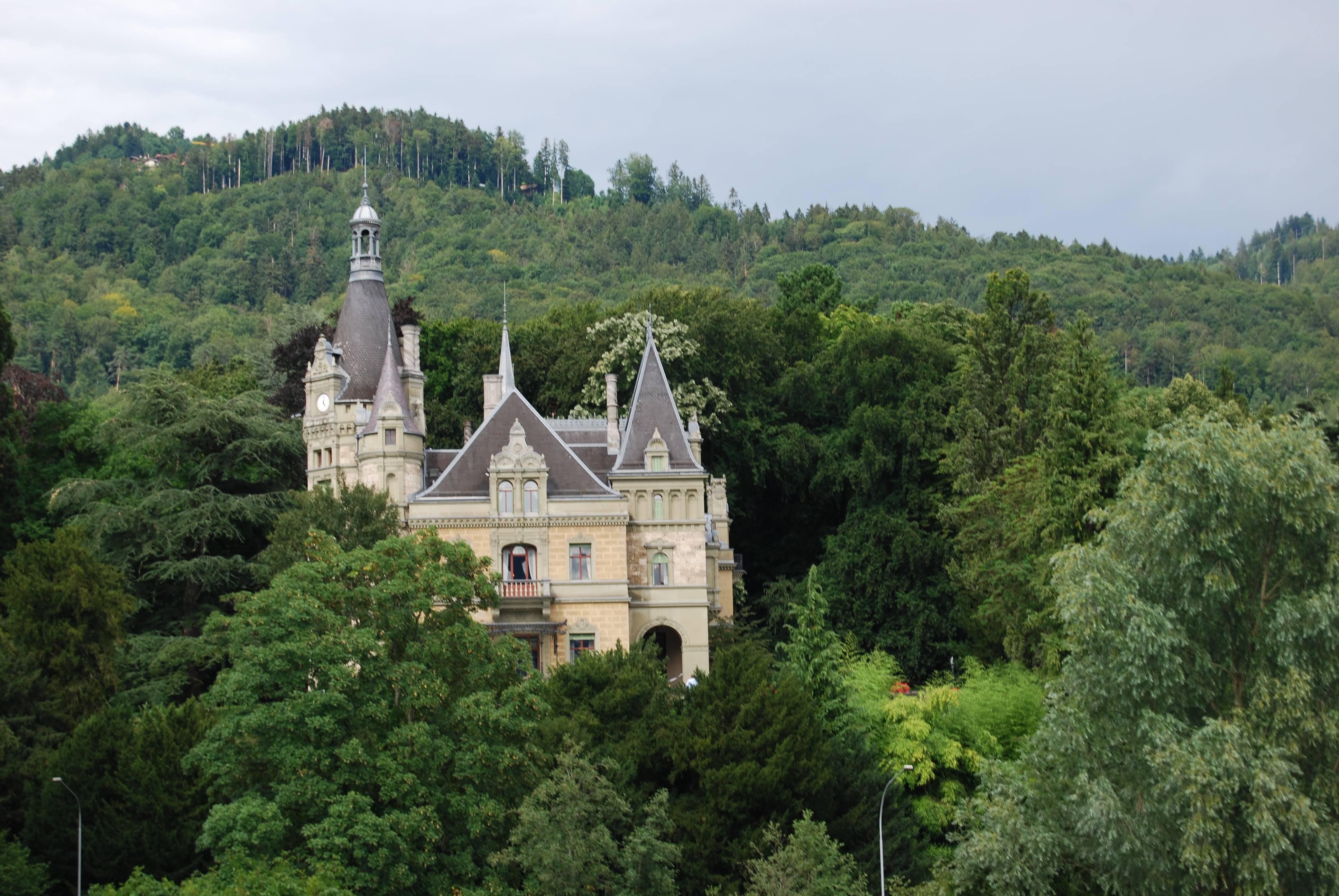 Castle Hünegg at Hilterfingen, canton of Bern, Switzerland